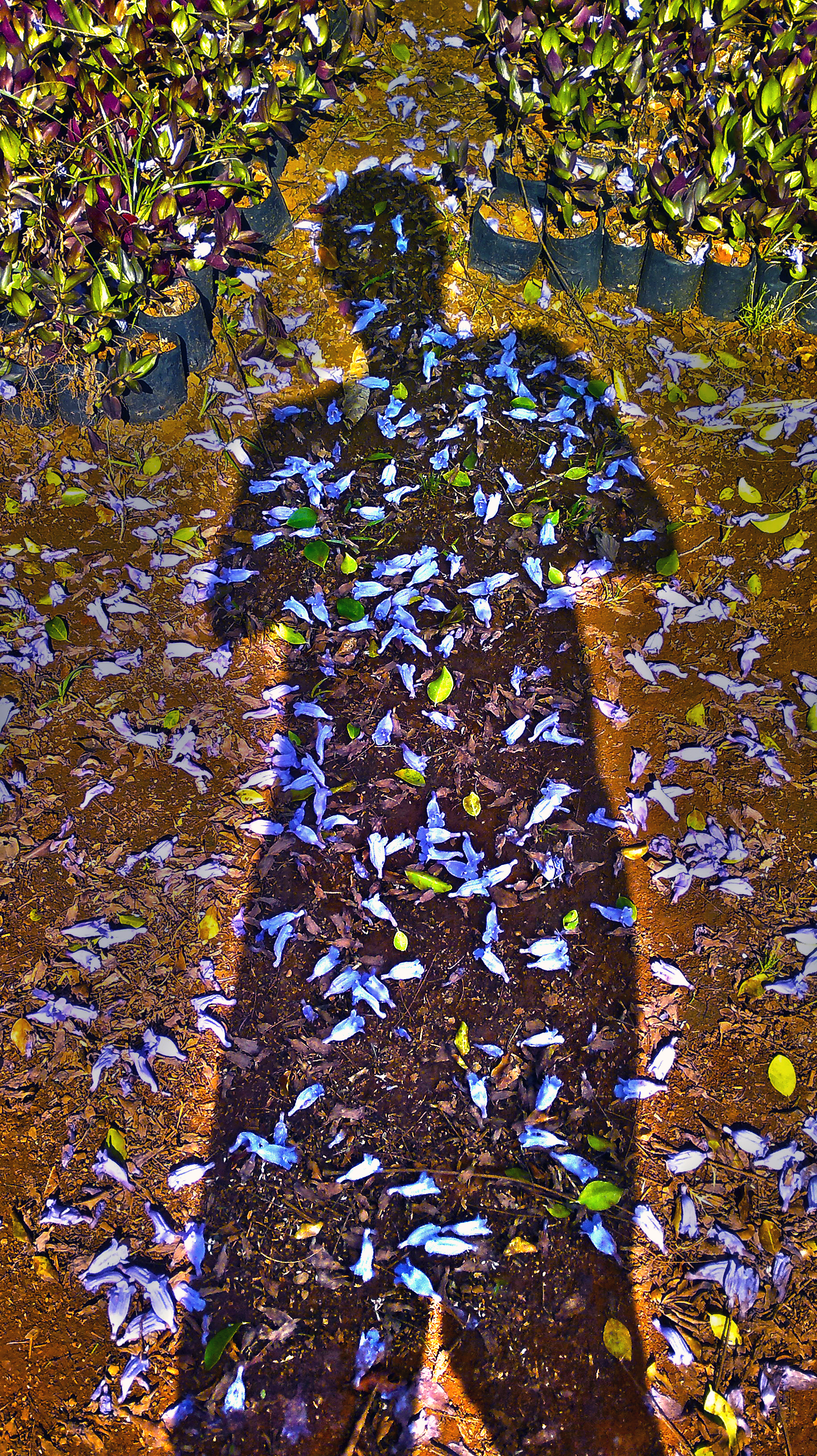 Abstract Dead by Infarction